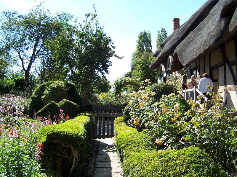 Anne Hathaway's Cottage taken by kev747